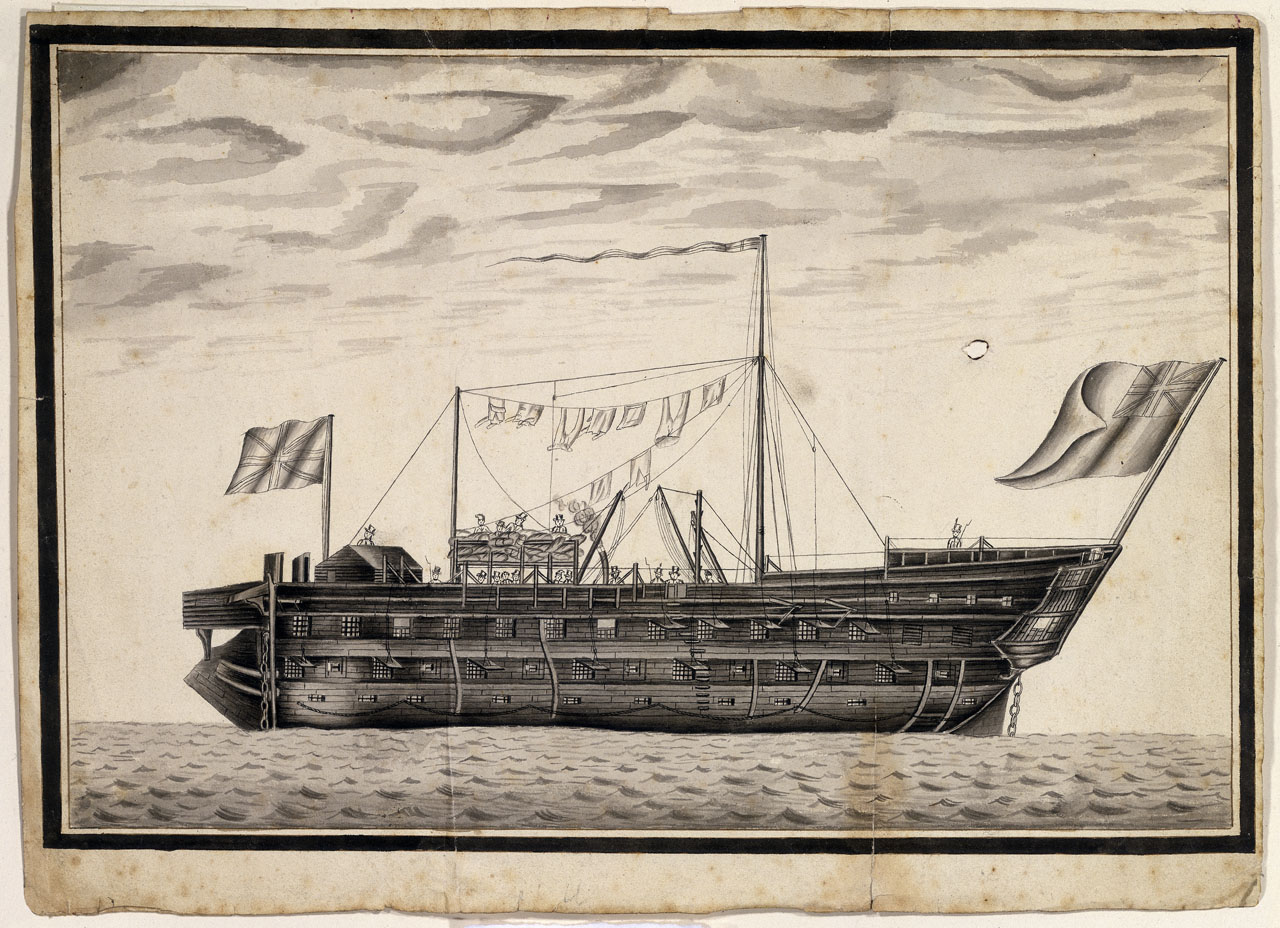 Prison Hulk ca.1810; original art: drawing, pen & wash, grey